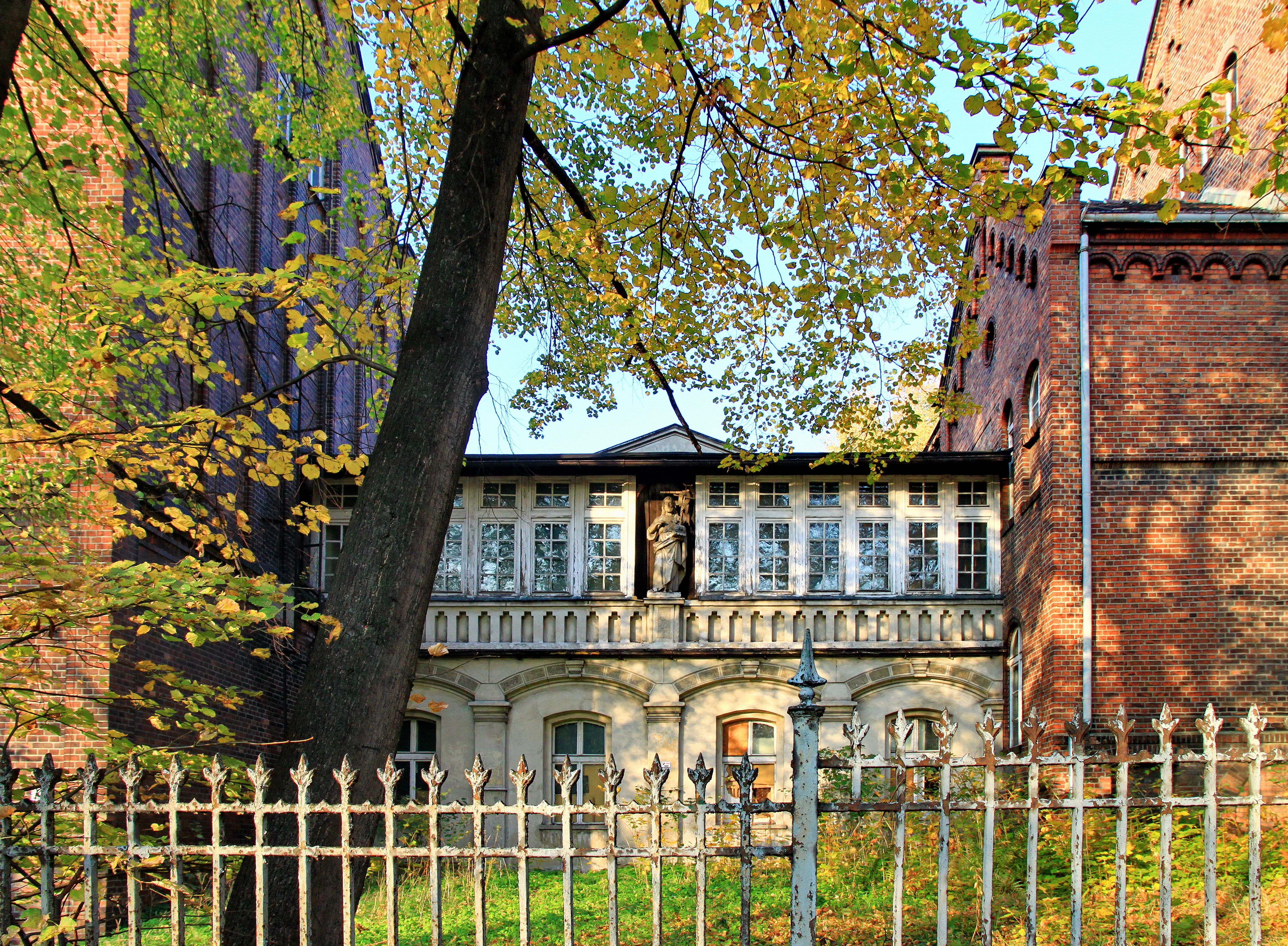 Rybnik, former hospital complex "Julius", later town hospital nr 1